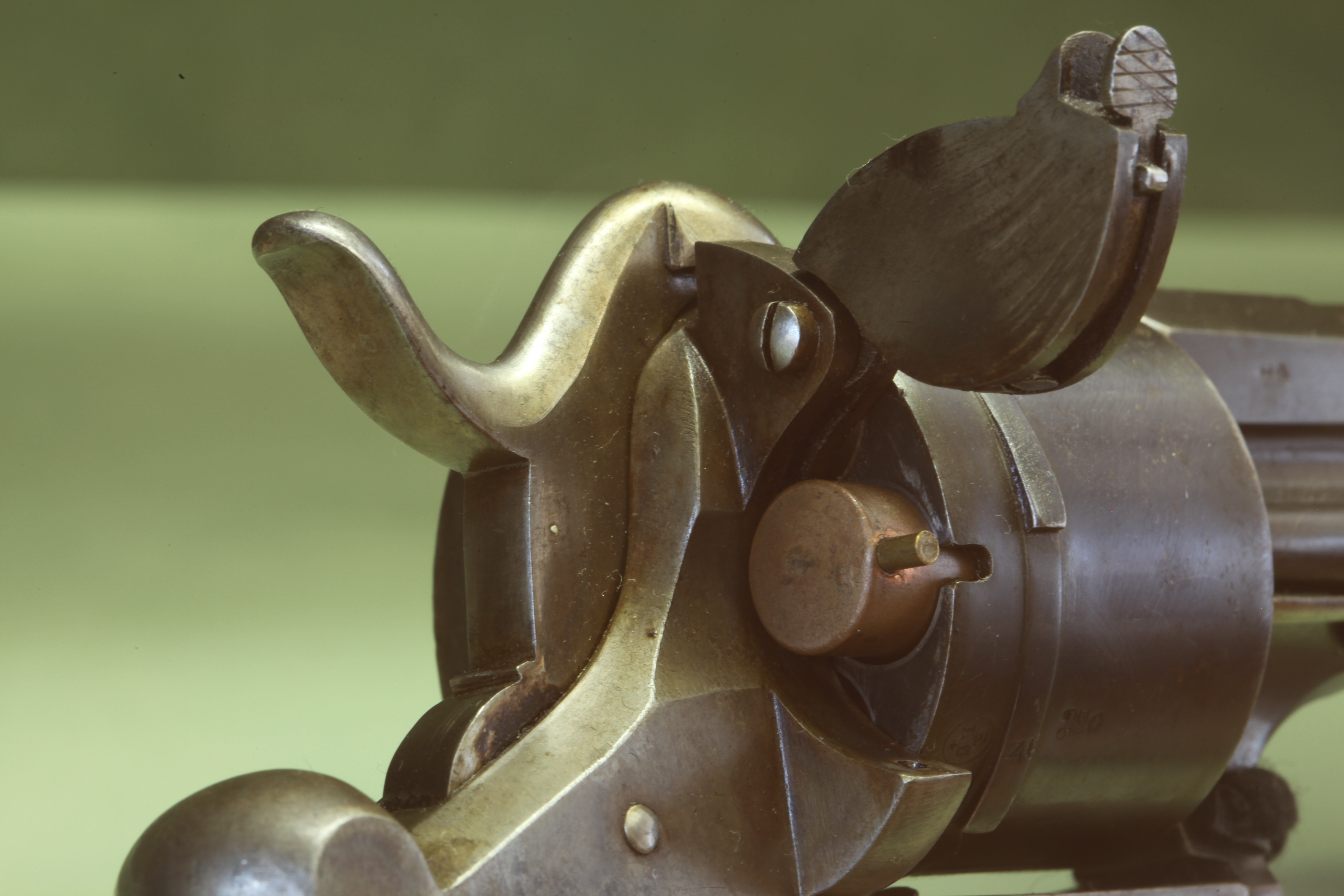 Lefaucheux M1858 revolver, double action, Lefaucheux system. Liège, Belgium, circa 1860-1865. On display at Morges military museum, accession number MMV 1004660